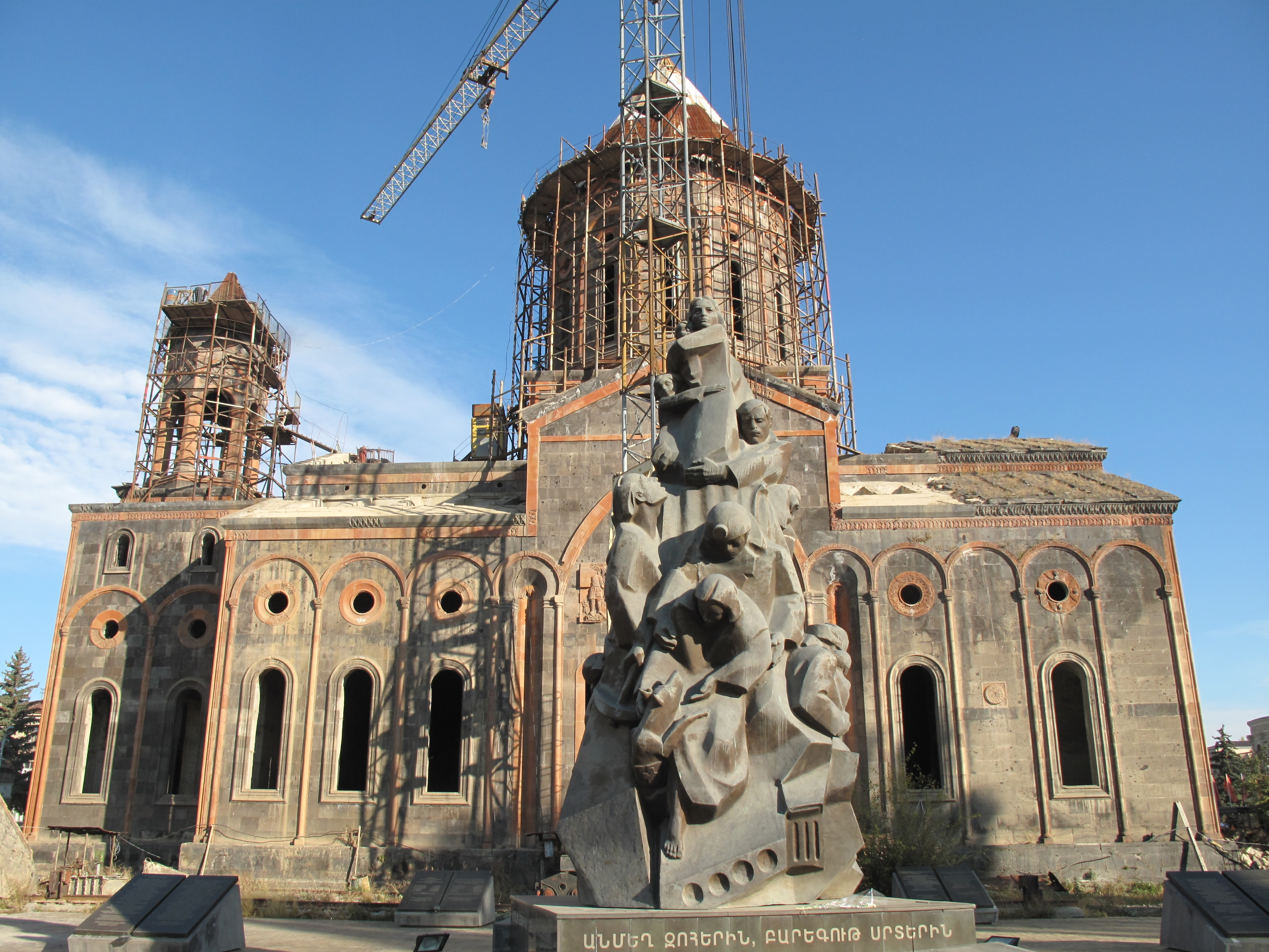 Holy Saviour Church, Gyumri, Armenia.